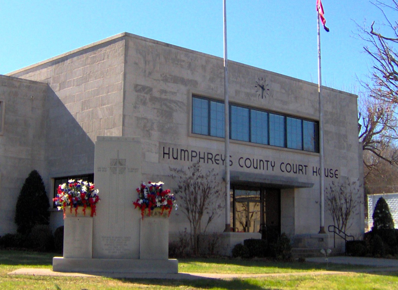 Humphreys County Courthouse in Waverly, Tennessee, in the southeastern United States. The courthouse, built in the early 1950s, is the fifth such structure on this spot, the first being built in 1836. A small monument on the courthouse lawn displays the bell from the fourth courthouse, which was built in 1899.